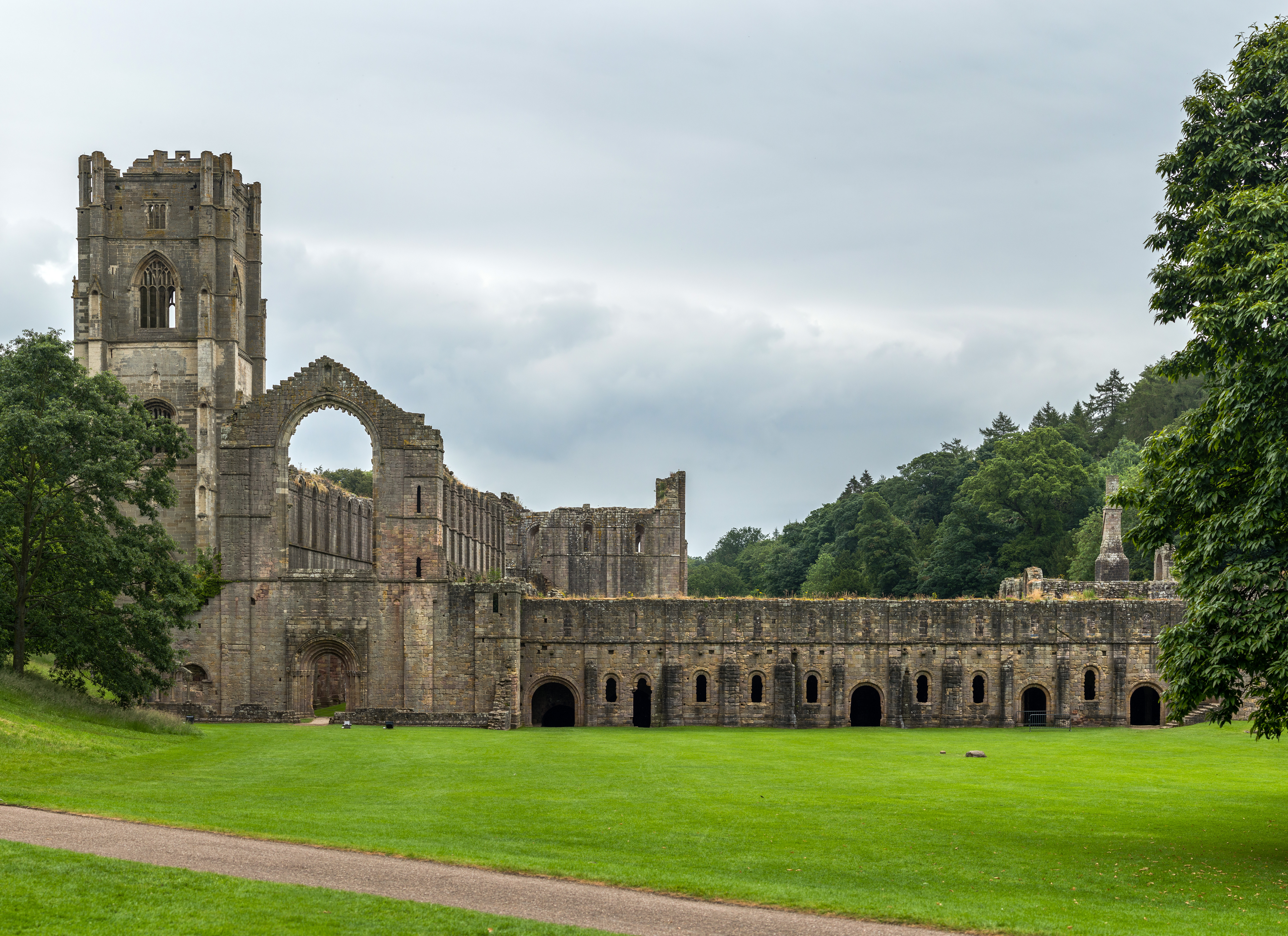 Fountains Abbey in Yorkshire, England, viewed from the west.